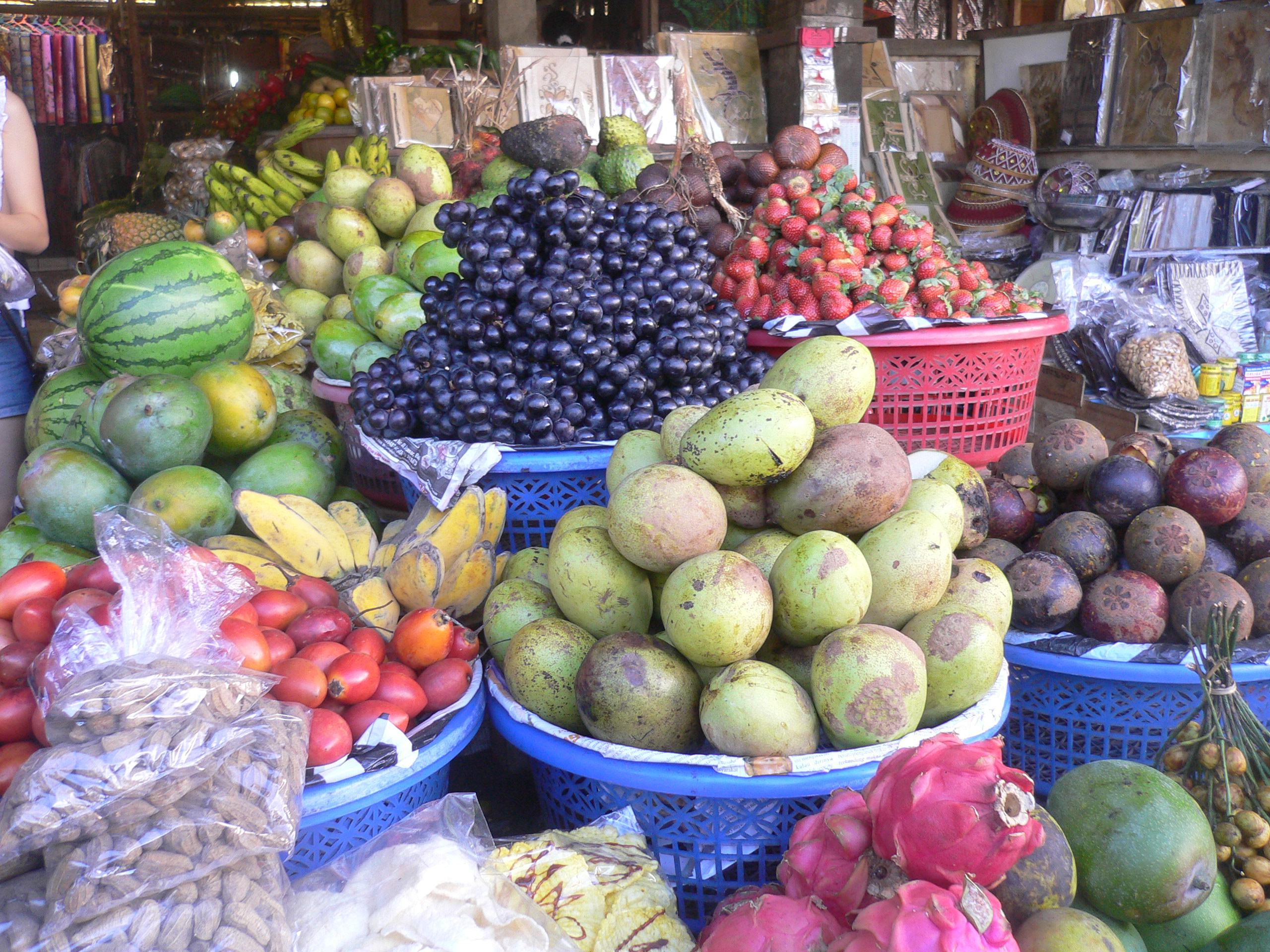 Fruits in Denpasar Market (Bali island, Indonesia)